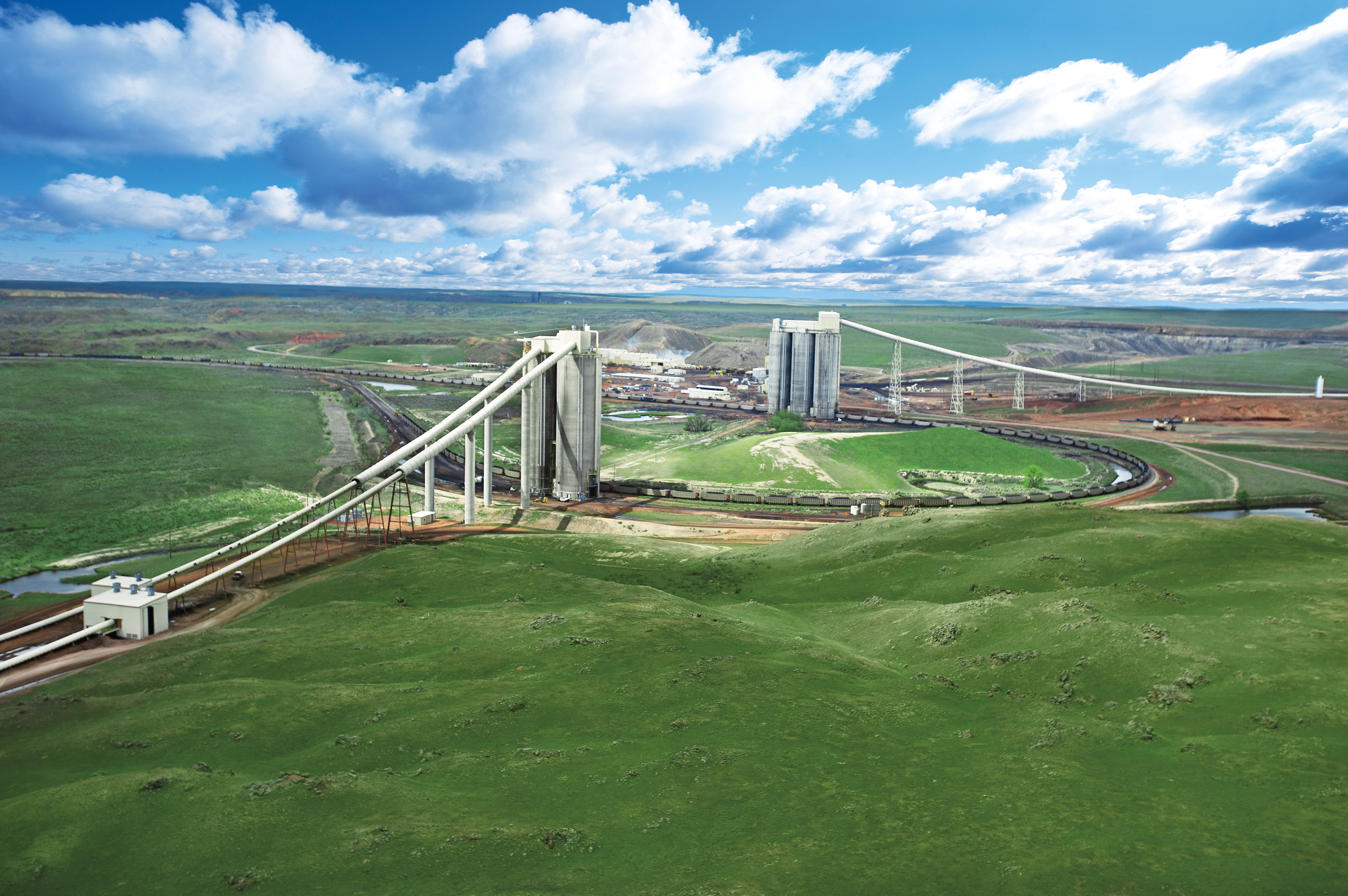 Opencut coal mine loadout station surrounded by reclaimed land at the North Antelope Rochelle Mine.